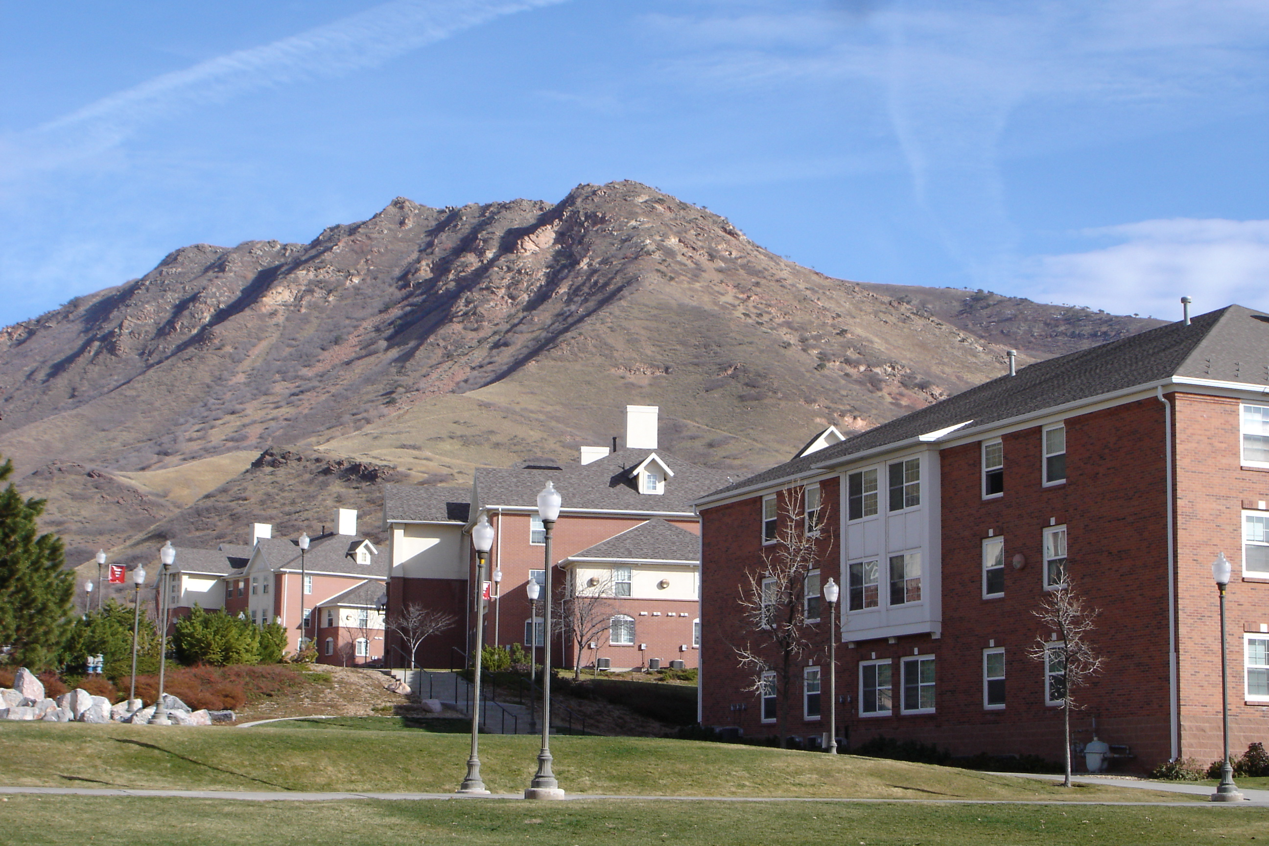 Student Housing at the University of Utah showing some of the Benchmark and Shoreline Ridge buildings. These apartments were also used during the 2002 Winter Olympics as the Olympic Village.